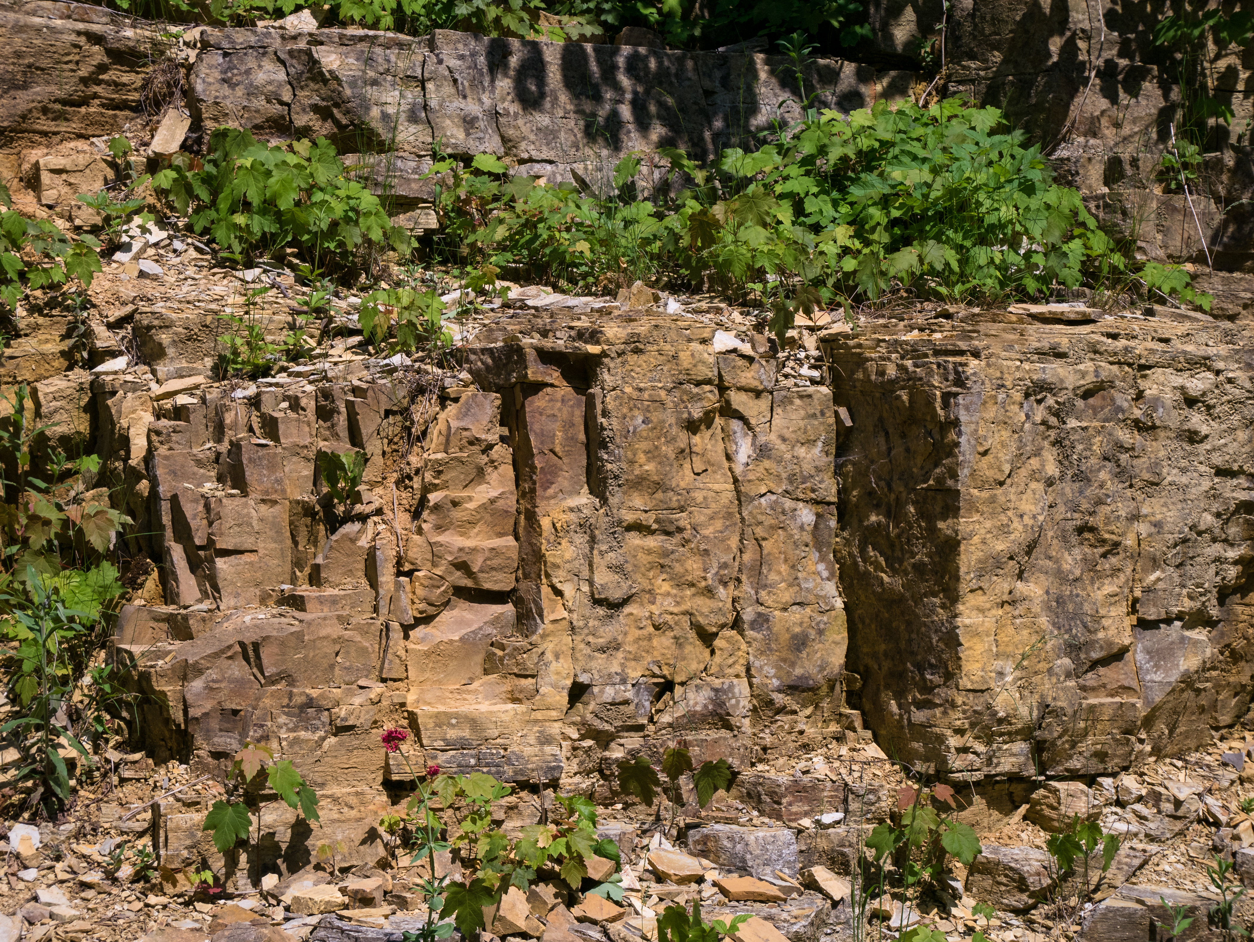 Westerberg stone, muschelkalk limestone. This type of limestone was used in many buildings of Osnabrück. Osnabrück, Lower Saxony, Germany